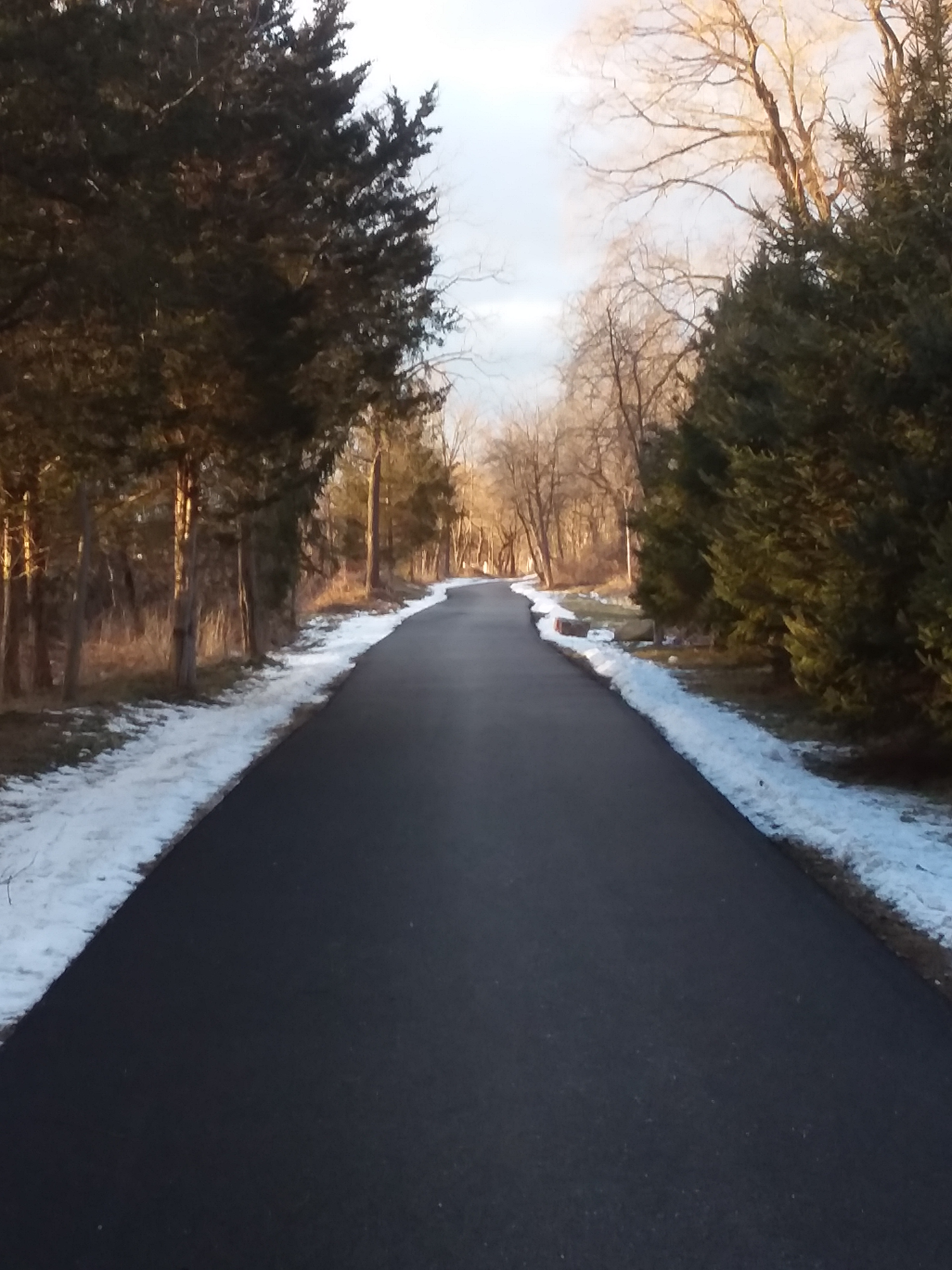 The East Hill Recreation Way in Ithaca, NY as seen from the Honness Lane entrance looking north. February 2019.